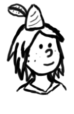 A drawing of Friluftfrämjandet's character Skogsmulle.